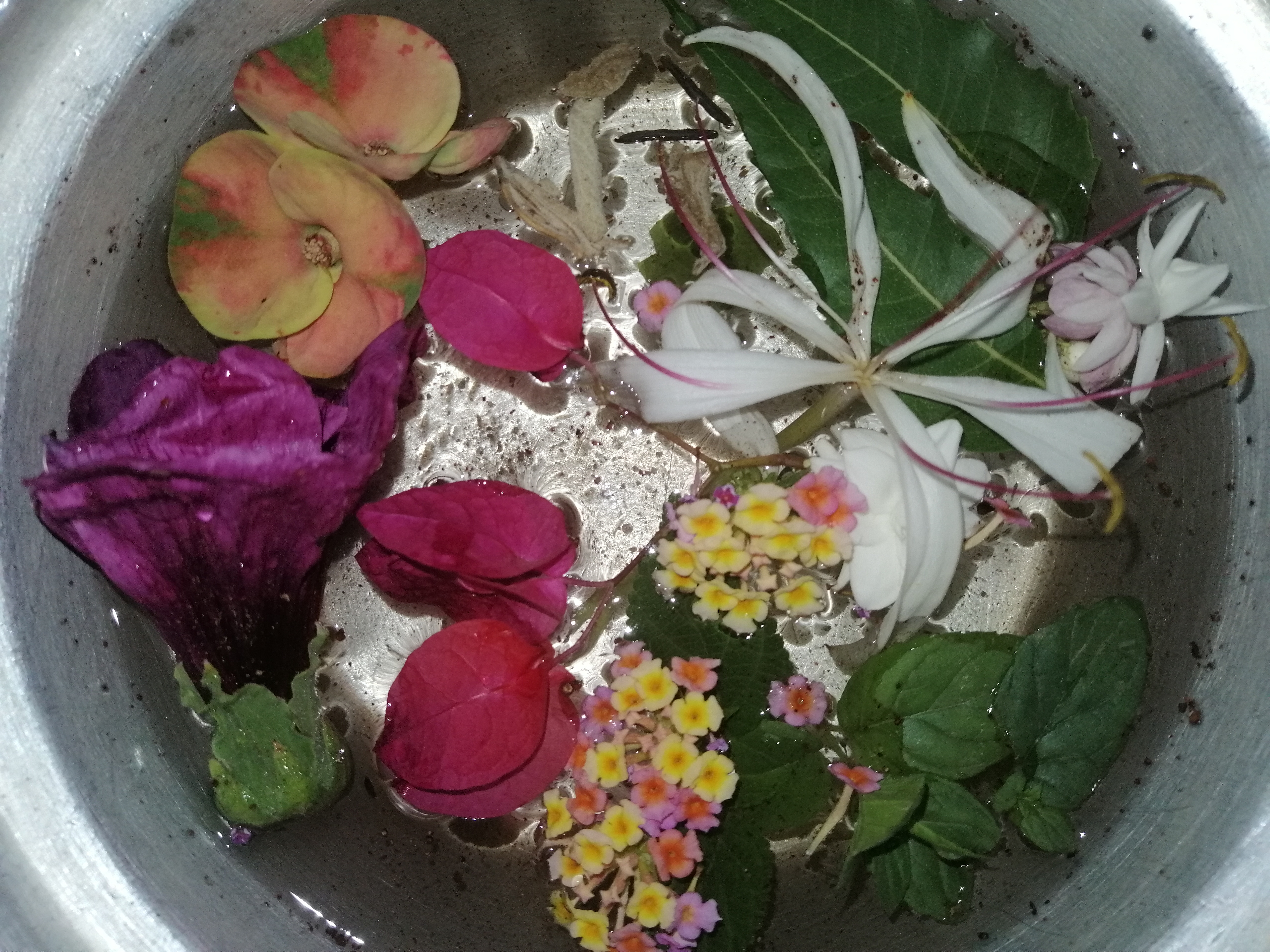 San Giovanni 's Water: Flowers & Plants, Catholic ritual for the summer solstice.